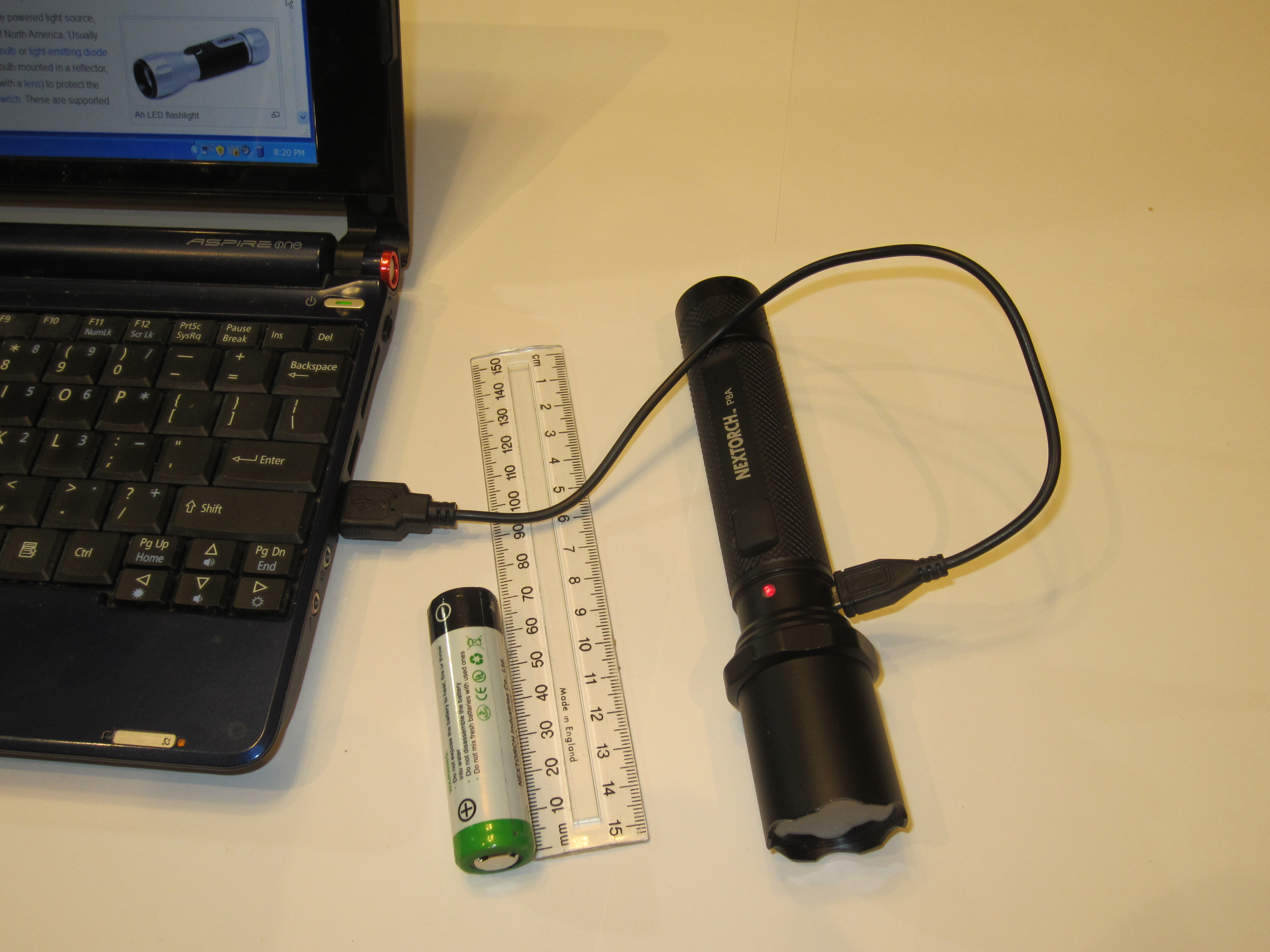 An LED flashlight which can charge and also have certain functions programmed via the USB port. The user can select stages of brightness level or flashing frequency through vendor supplied software running on a computer. A spare 18650 size lithium-ion rechargeable battery is also shown.